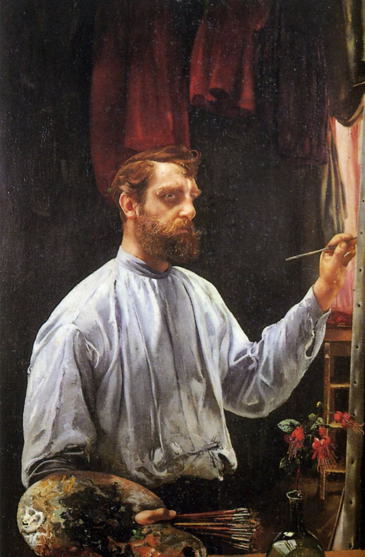 Léon Henri Marie Frédéric (Belgian, 1856-1940) - Autoportrait